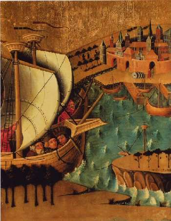 panel showing the return of the Three Kings from the Three Kings Altar, formerly in the Johanniskloster, Rostock, now in the Kulturhistorisches Museum, Rostock